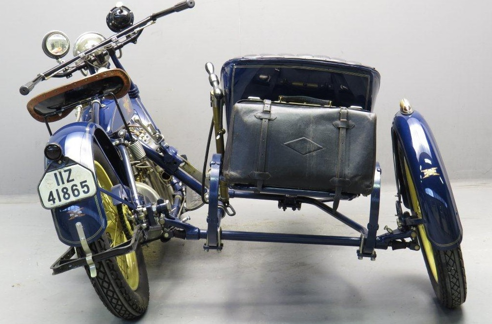 Henderson 1301 cc motorcycle with Flxible Sidecar, 1921, rear view